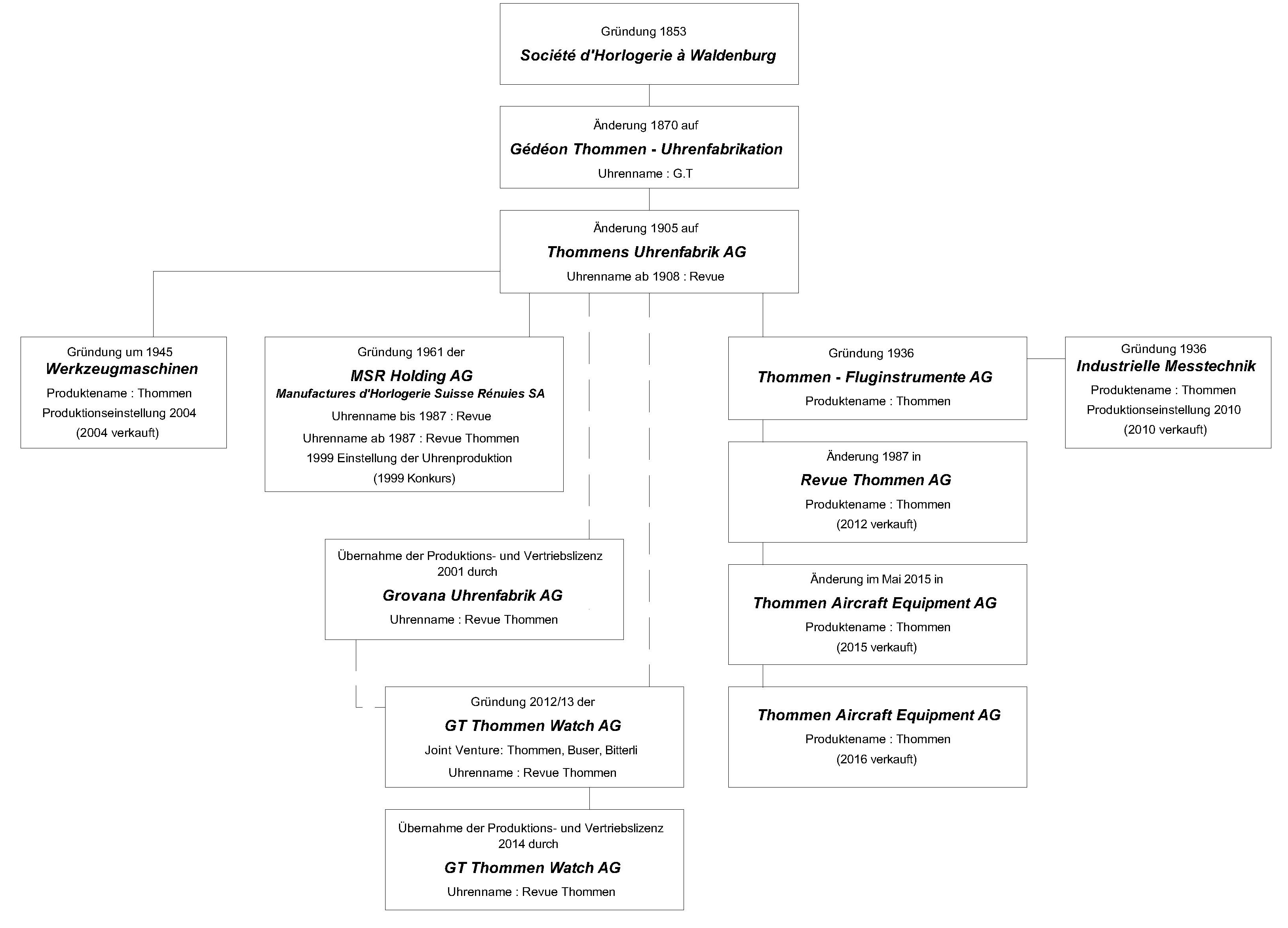 Revue Thommen AG, company organization